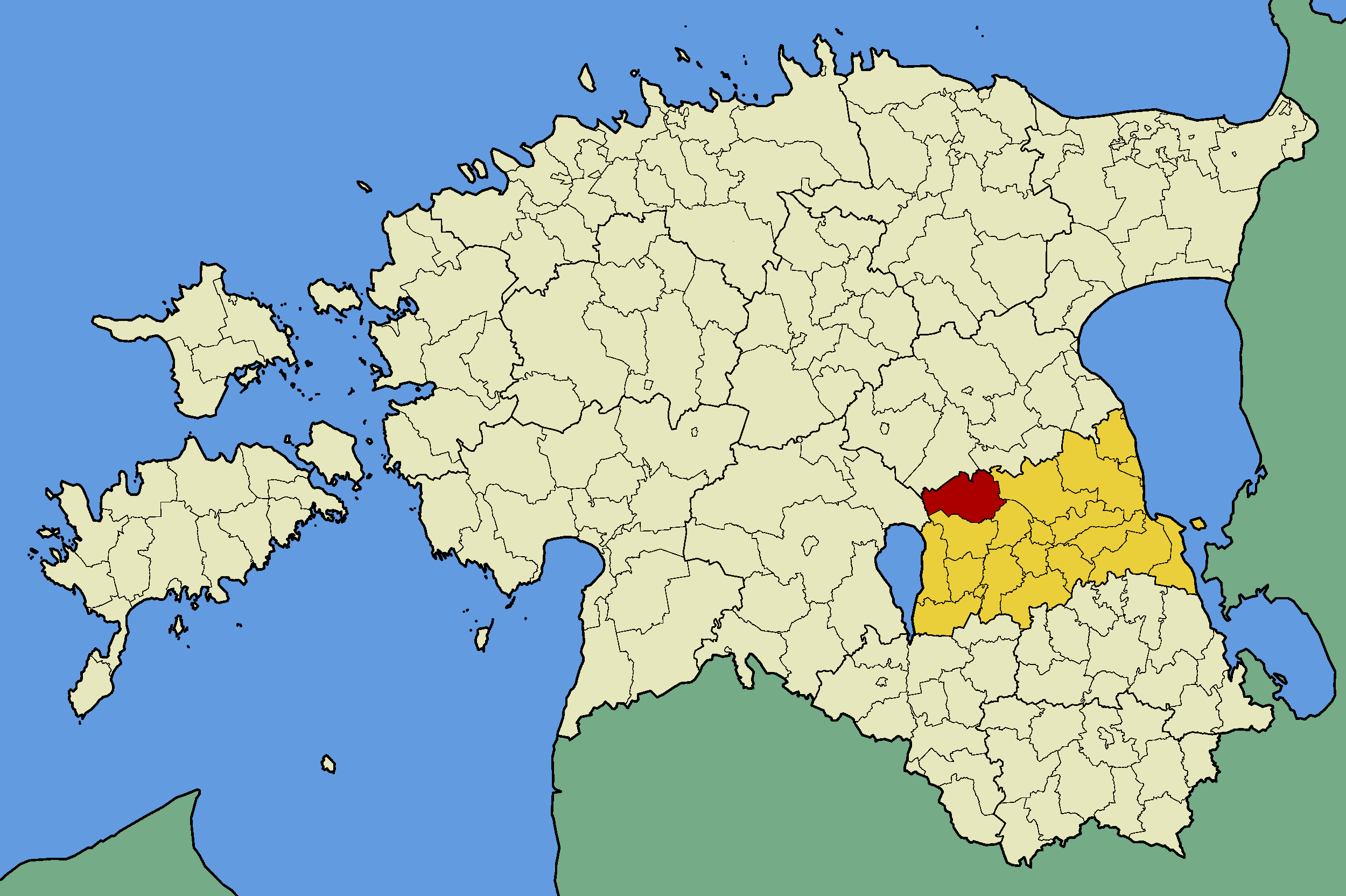 Map of Estonia with borders of municipalities (parishes). Tartu county and Laeva municipality emphasized.